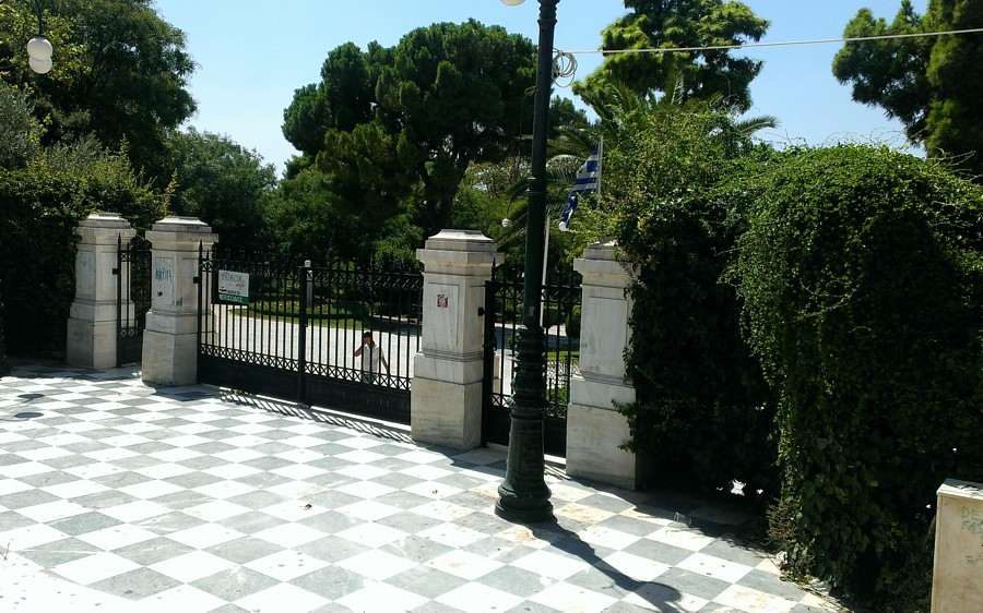 alsos